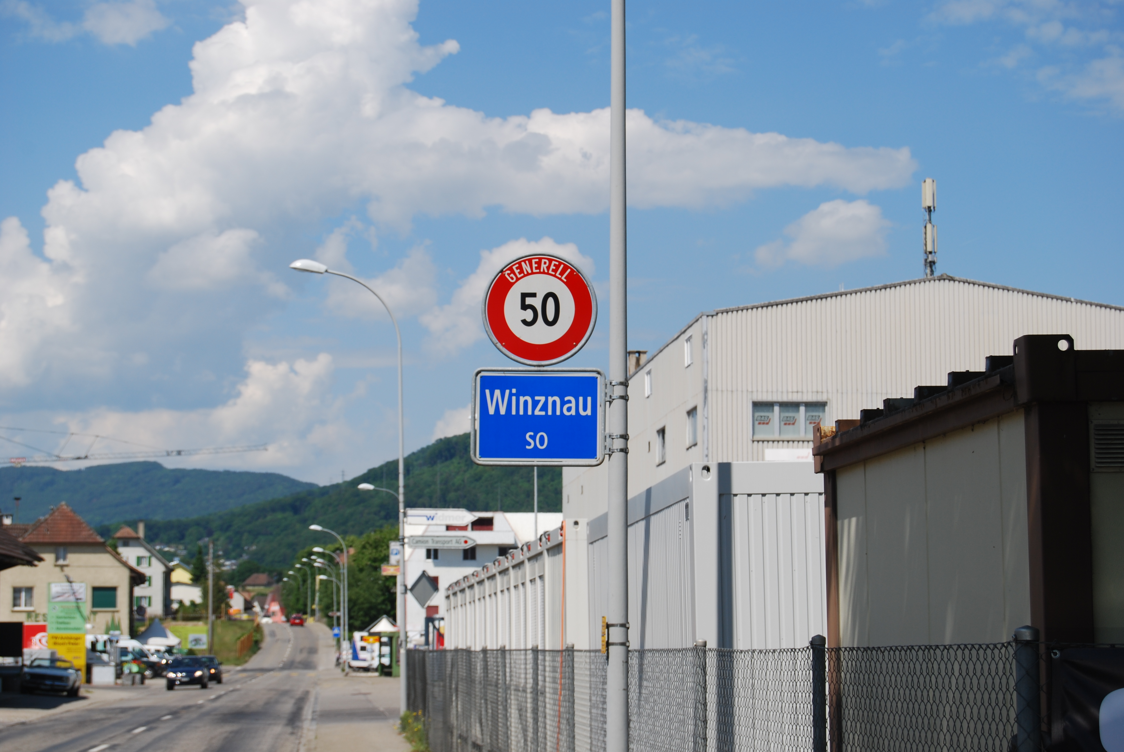 Winznau, canton of Solothurn, Switzerland